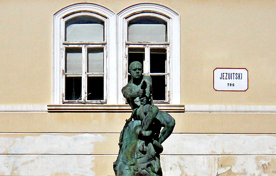 "Fisherman and snake" [Ribar za smijon]. Zagreb, Croatia